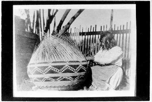 Basket is 4 feet high.